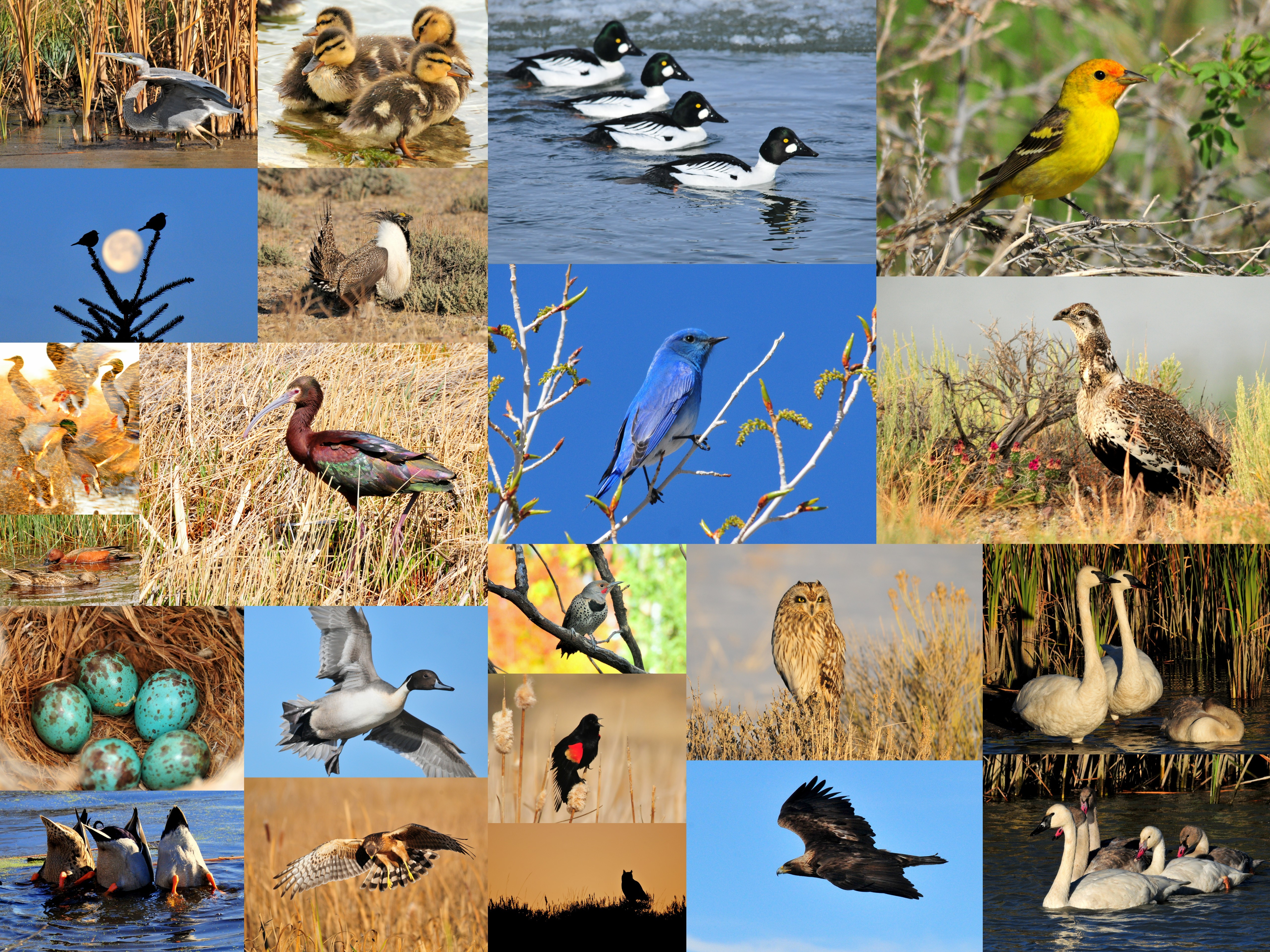 A photo quilt composed of bird photos taken on National Wildlife Refuges in Region 6, Mountain Prairie Region, USFWS. Photo: Tom Koerner/USFWS